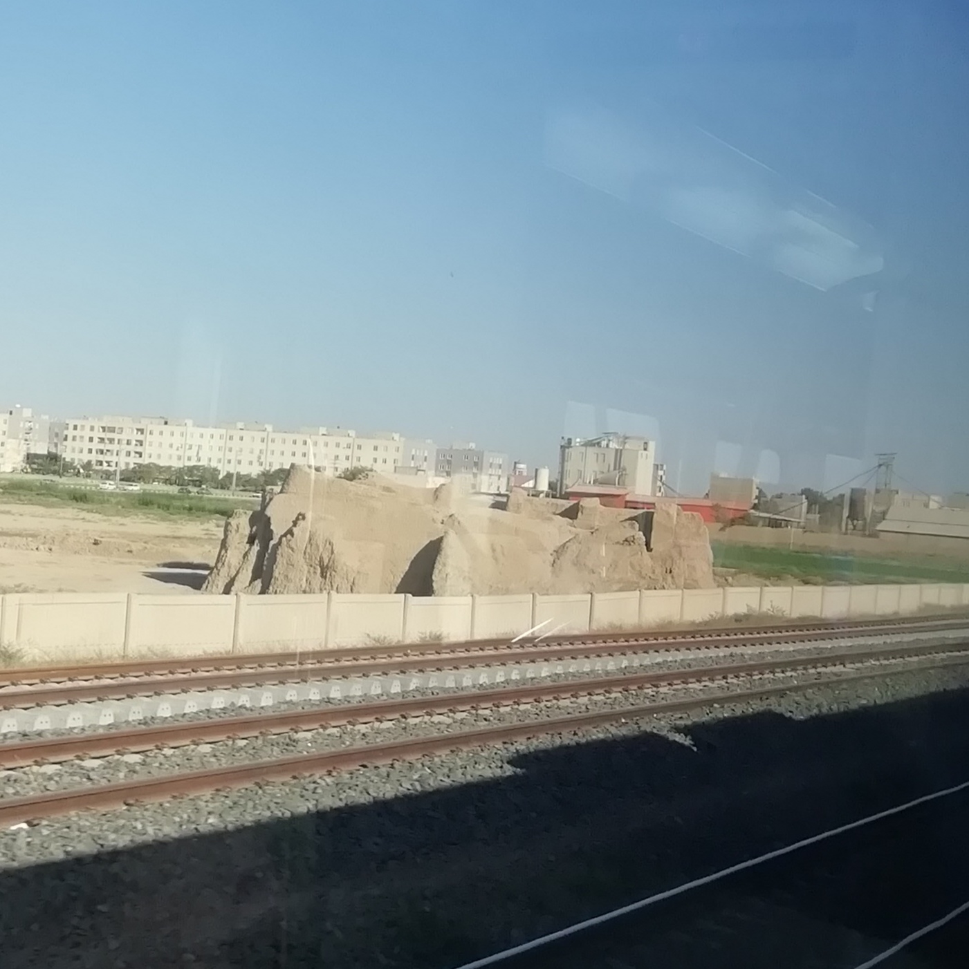 Historical remains of an ancient fort, adjacent to Tehran - Varamin railroad near Qarchak, Iran